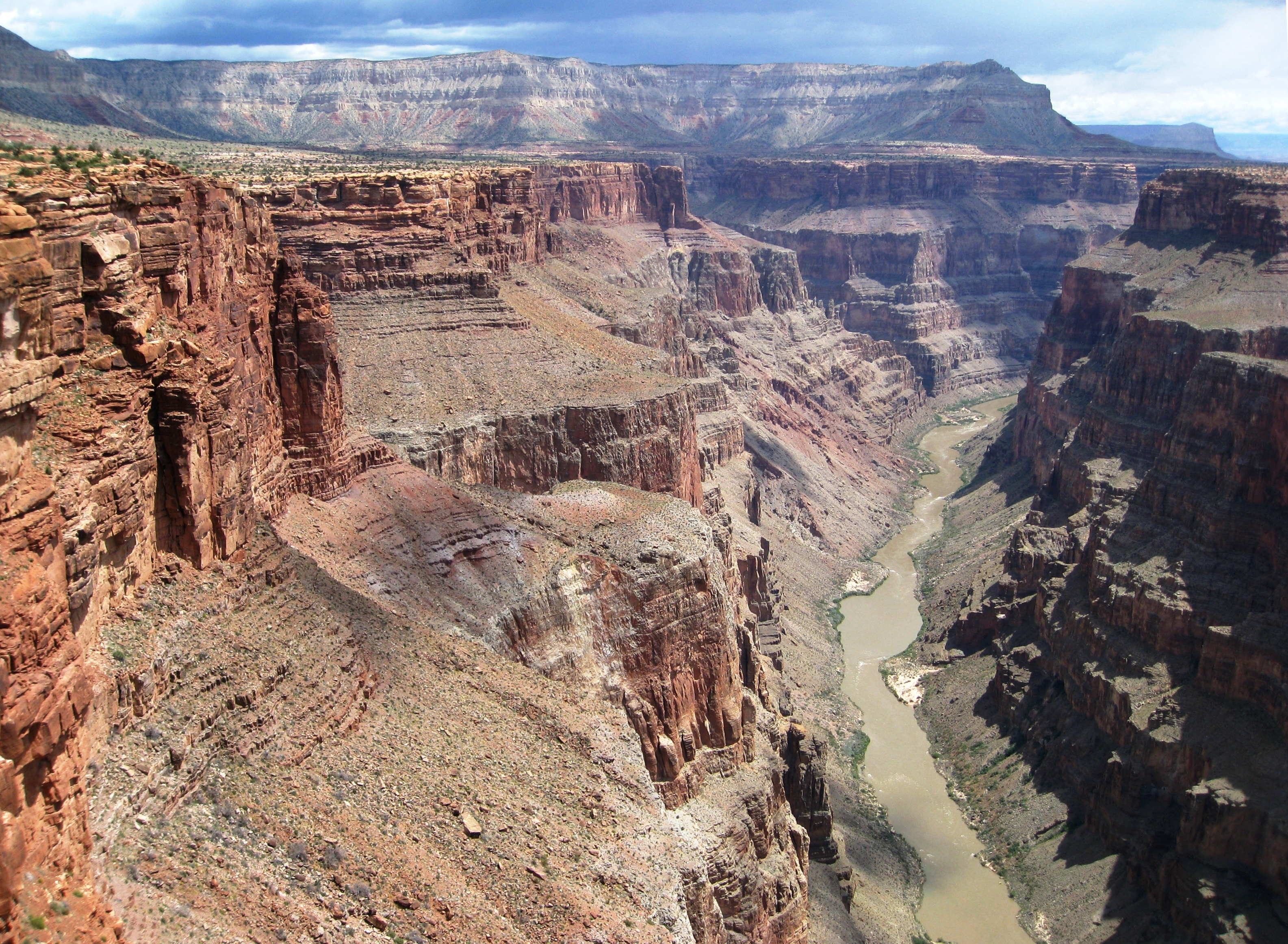 (view ~due east)-From the east side of the Toroweap area. There is about a 900 meter (3000 foot) drop to the Colorado river. The South Rim, Grand Canyon, (at right) is a horizontal platform (mesa-like) of Esplanade Sandstone, the erosion-resistant, cliff-forming upper Supai Group member. The platform: The Esplanade (Grand Canyon) is about 20 miles long, from Havasupai Canyon ENE, to the Toroweap Fault, (at Toroweap Valley, Toroweap Overlook), at the SSW. (North Rim, at left) The closest point about 4.5 mi distant from Toroweap Overlook, is Big Point (Tuckup Point), (of Tuckup Point); about 12.5 from Toroweap Overlook, is the further, SB Point. The 3 Points, Toroweap, Big Point, and SB Point are 1.0 to 1.5 horizontal miles from the Colorado River. (the elevations are 6293, 6104, and ? ft.) sw2 527